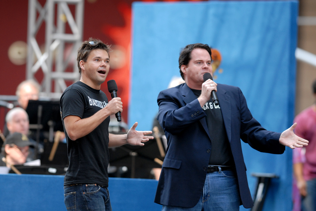 Cast members Hunter Foster and John Treacy Egan perform "We Can Do It" at Broadway on Broadway, September 10th 2006.